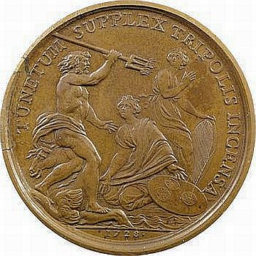 Medal about the French bombardment of Tripolis 1728